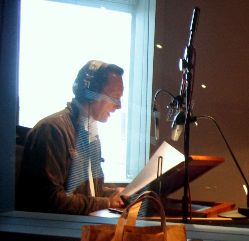 Richard E. Grant recording The Voice for 2+2+2 at a central London studio in 2007. Directed by Alex Helfrecht.